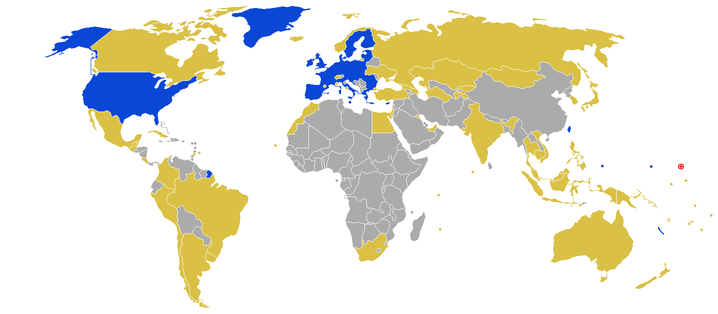 Visa policy of the Marshall Islands Marshall Islands Visa free Visa on arrival